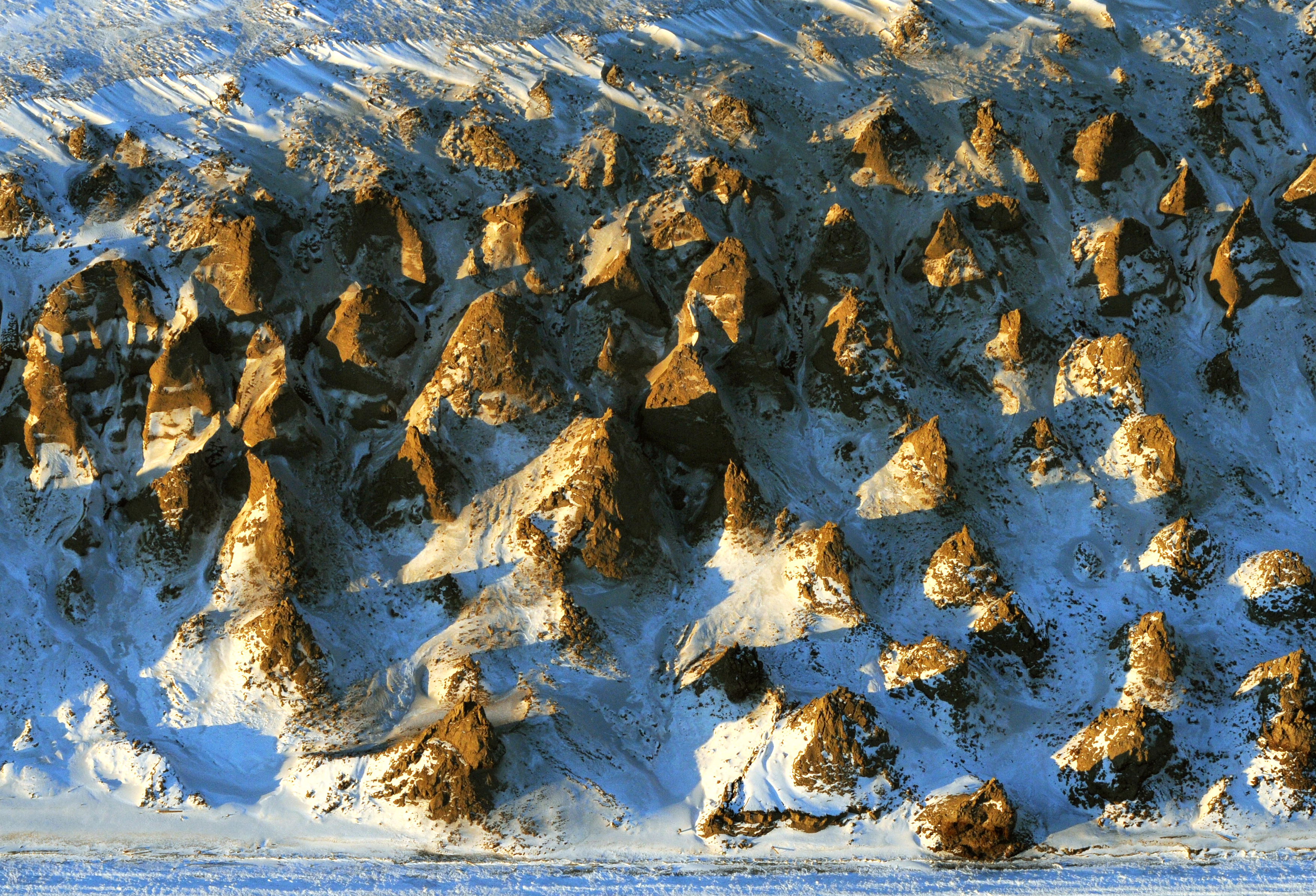 Stony structures in the cliffs on Stolbovoy Island, part of the large Lena Delta resource reserve